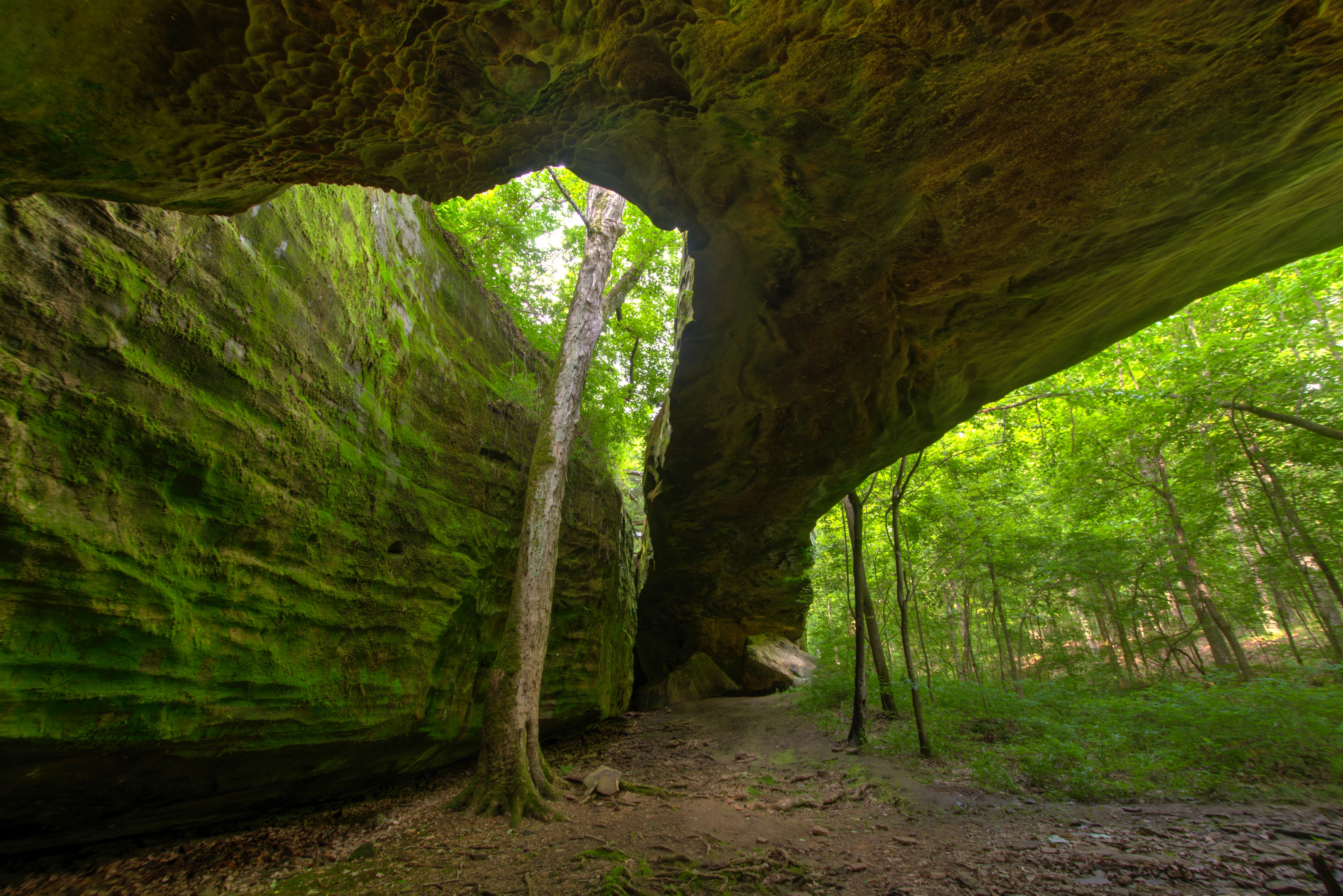 A sandstone arch that forms the centerpiece of the NRHP-listed "Mantle Rock Archeological District", in western Kentucky